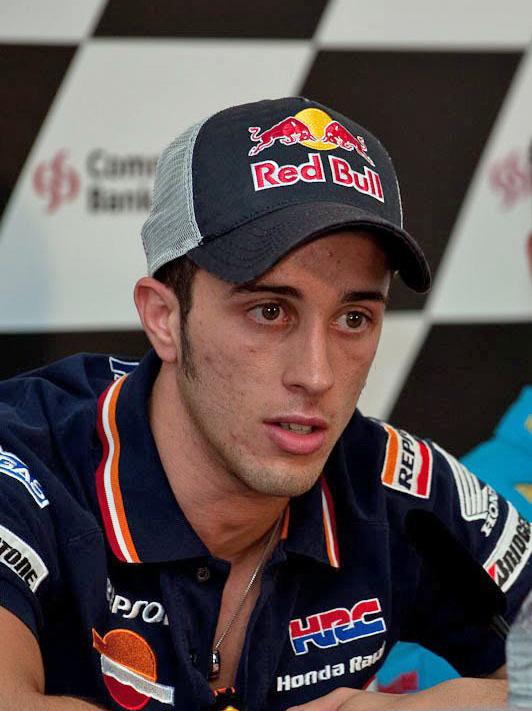 Andrea Dovizioso 2010 Qatar